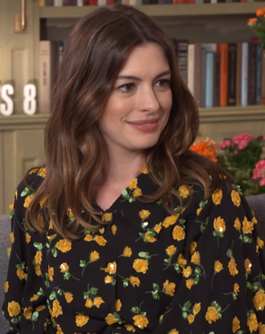 I don't show just anyone my signature dance moves, but when I do it's with Anne Hathaway and Mindy Kaling. Check out my new video to see my full interview with some of the cast of Ocean's 8! A huge thanks to Warner Brothers for the Opportunity :)